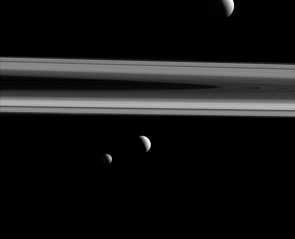 PIA18357: Three Times the Fun Three of Saturn's moons -- Tethys, Enceladus and Mimas -- are captured in this group photo from NASA's Cassini spacecraft. Tethys (660 miles or 1,062 kilometers across) appears above the rings, while Enceladus (313 miles or 504 kilometers across) sits just below center. Mimas (246 miles or 396 kilometers across) hangs below and to the left of Enceladus. This view looks toward the sunlit side of the rings from about 0.4 degrees above the ring plane. The image was taken in visible light with the Cassini spacecraft narrow-angle camera on Dec. 3, 2015. The view was acquired at a distance of approximately 837,000 miles (1.35 million kilometers) from Enceladus, with an image scale of 5 miles (8 kilometers) per pixel. Tethys was approximately 1.2 million miles (1.9 million kilometers) away with an image scale of 7 miles (11 kilometers) per pixel. Mimas was approximately 1.1 million miles (1.7 million kilometers) away with an image scale of 6 miles (10 kilometers) per pixel. The Cassini mission is a cooperative project of NASA, ESA (the European Space Agency) and the Italian Space Agency. The Jet Propulsion Laboratory, a division of the California Institute of Technology in Pasadena, manages the mission for NASA's Science Mission Directorate, Washington. The Cassini orbiter and its two onboard cameras were designed, developed and assembled at JPL. The imaging operations center is based at the Space Science Institute in Boulder, Colorado. For more information about the Cassini-Huygens mission visit and The Cassini imaging team homepage is at